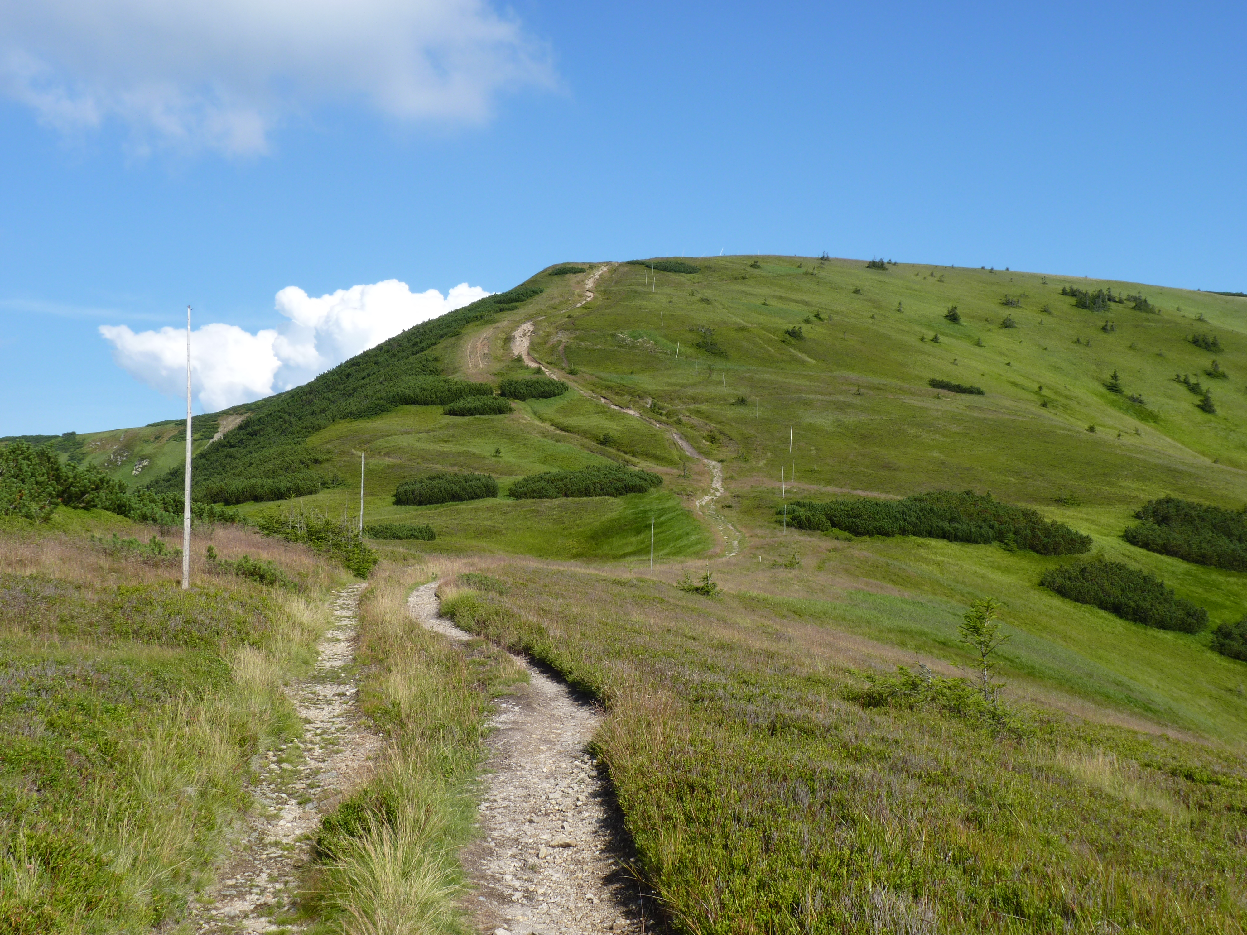 Latiborská hoľa (1643 m). Low Tatras, Slovakia